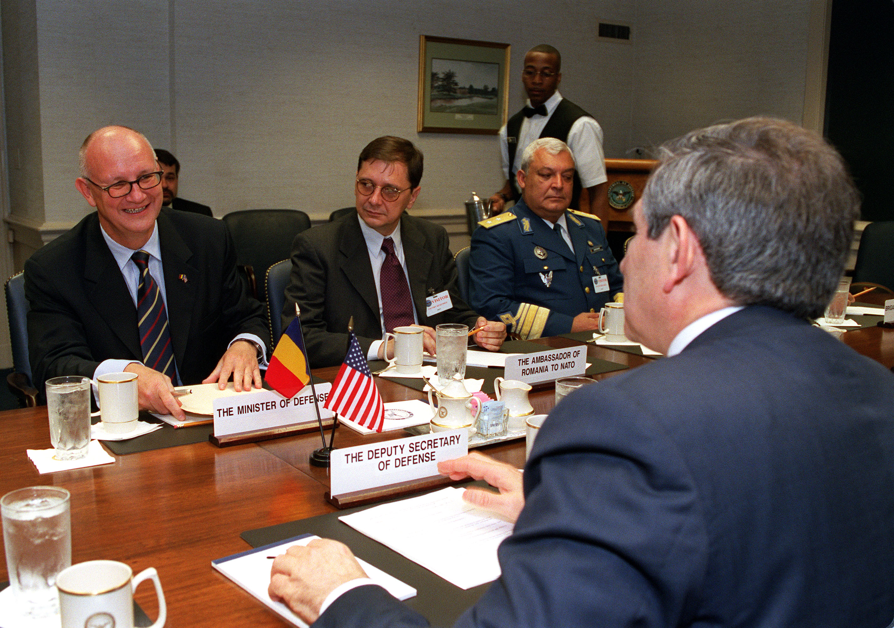 Romanian Minister of Defense Ioan Mircea Pascu (left) meets with Deputy Secretary of Defense Paul Wolfowitz (right foreground) at the Pentagon on June 13, 2001. A range of regional security issues of interest to both nations are under discussion. Joining Pascu are (left to right) Bogdan Nazuru, Romania's ambassador to NATO, and Maj. Gen. Constantin Gheorghe, deputy chief of the Romanian General Staff.